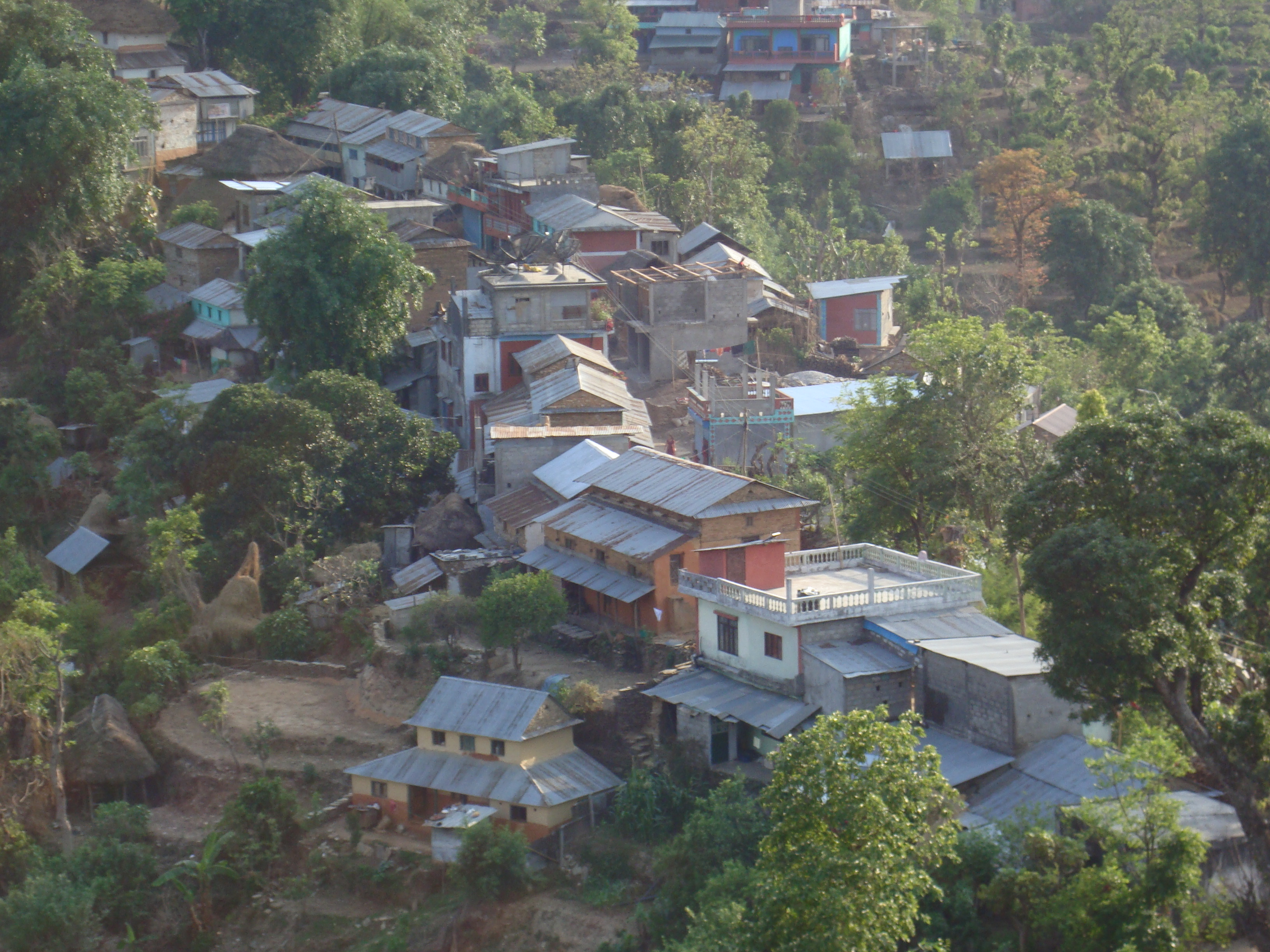 Saldanda village